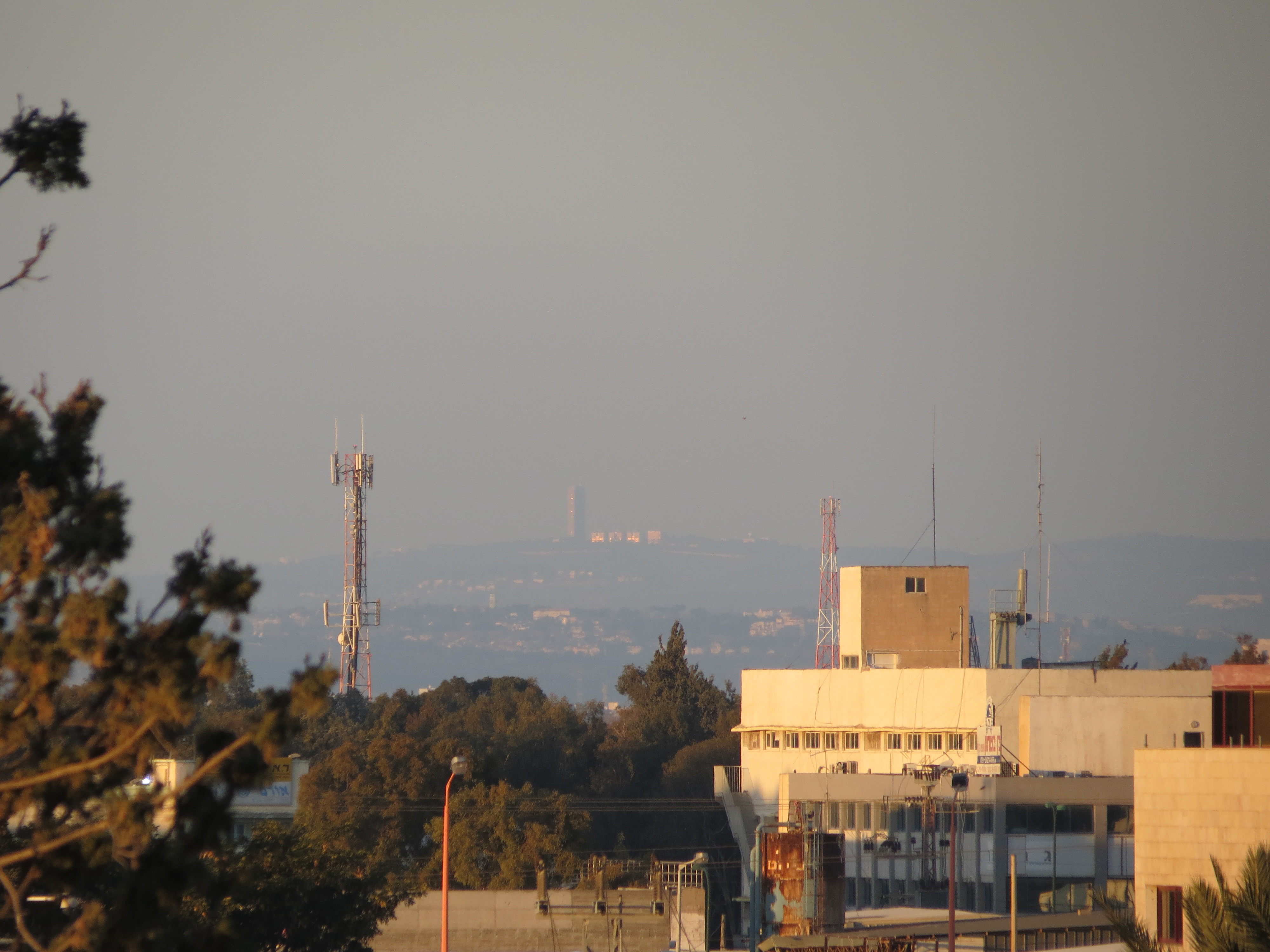 Haifa University - Eshkol tower - as viewed from Netanya on a very clear day